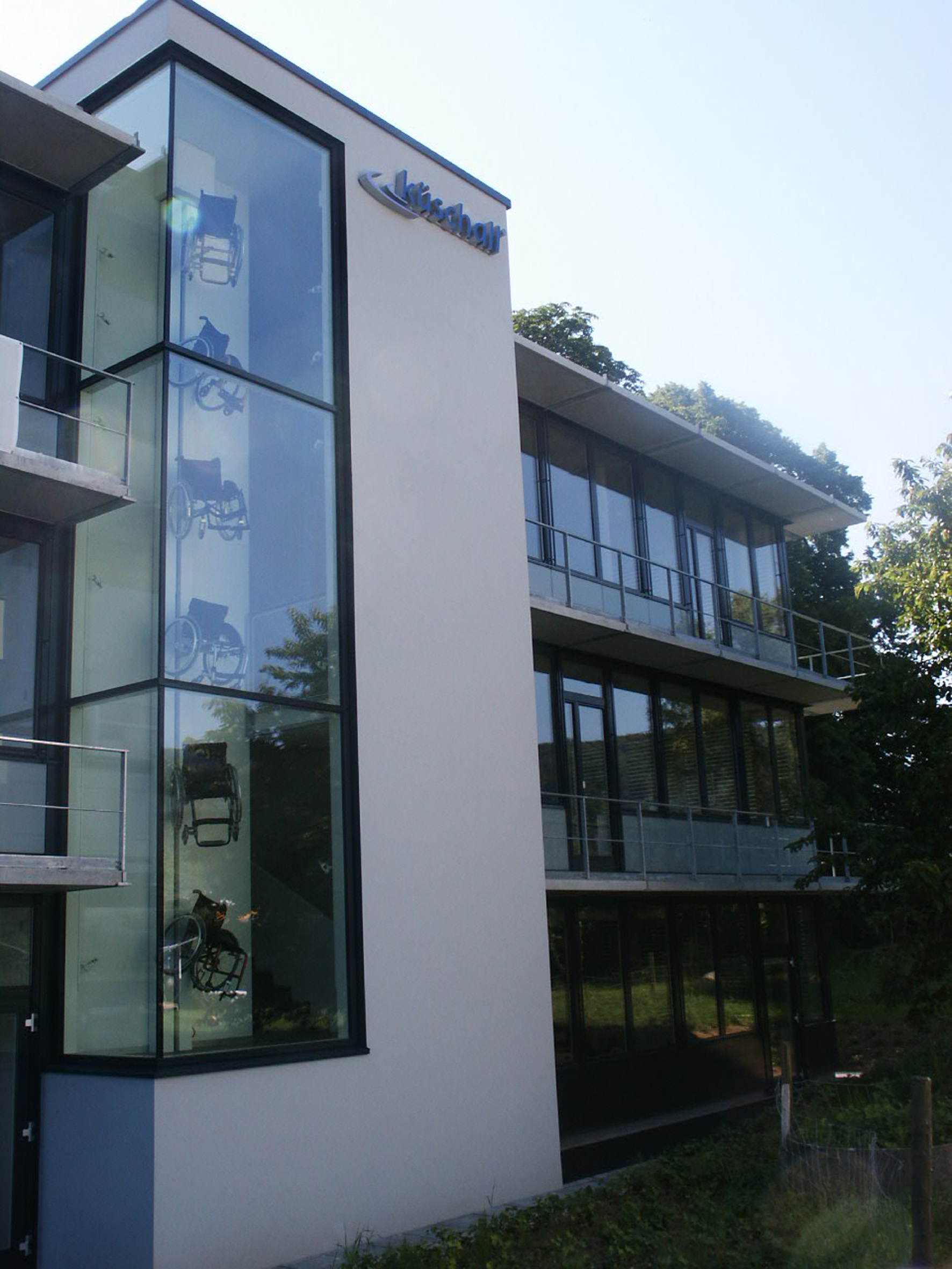 Küschall Headquarter with wheelchair tower in Witterswil